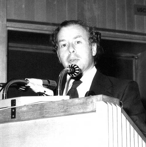 Photograph from family archives of the Late Professor S Selwyn presenting one of many lectures.